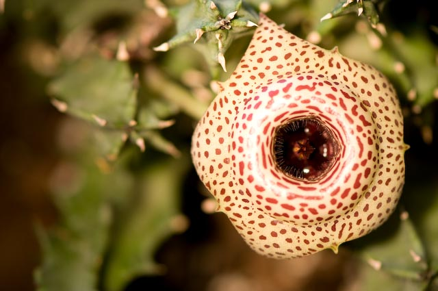 Image of Huernia guttata in bloom.